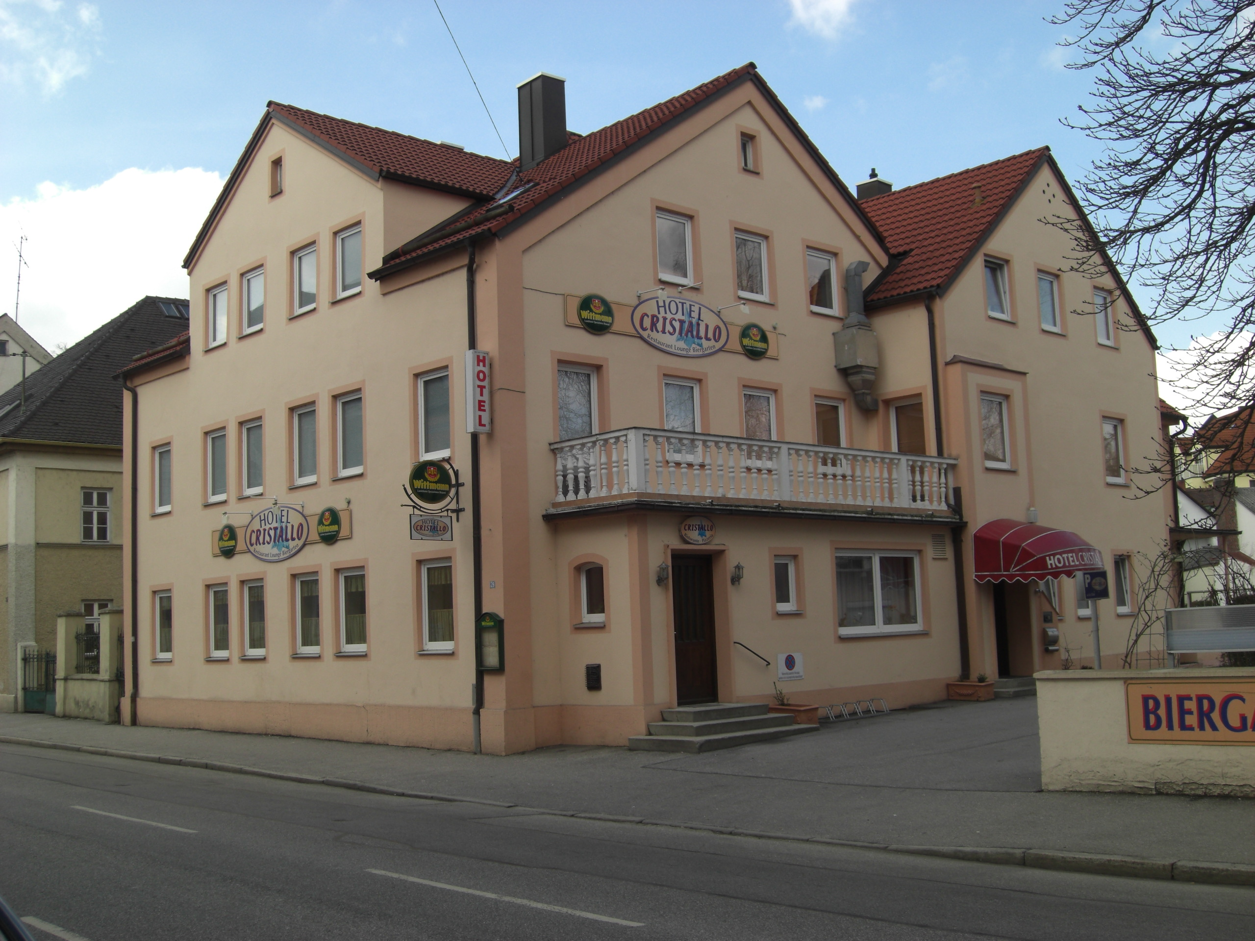 The former restaurant "Sterngarten" (today Hotel "Cristallo") in the Seligenthalerstraße next to Kennedyplatz in Landshut, Lower Bavaria